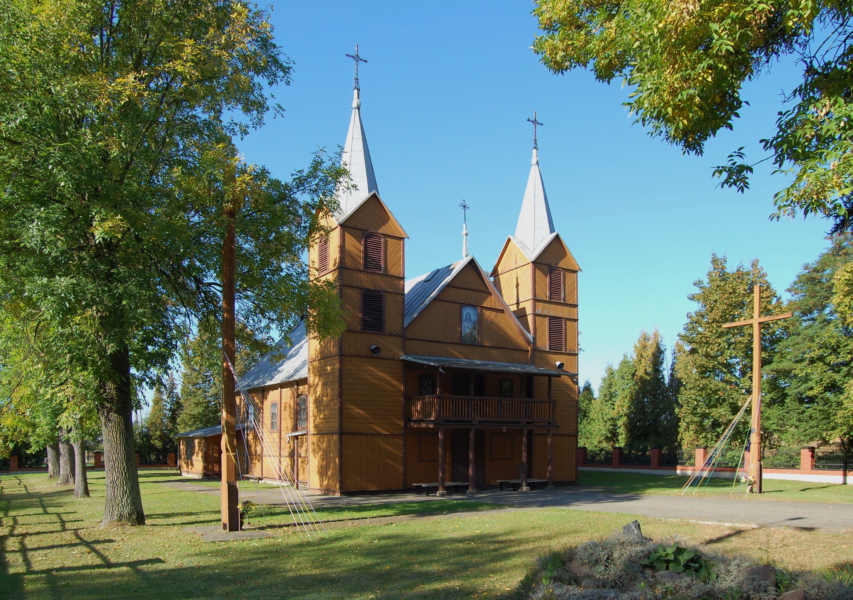 Church in Sobolew, Masovian Voivodeship built in 1708.